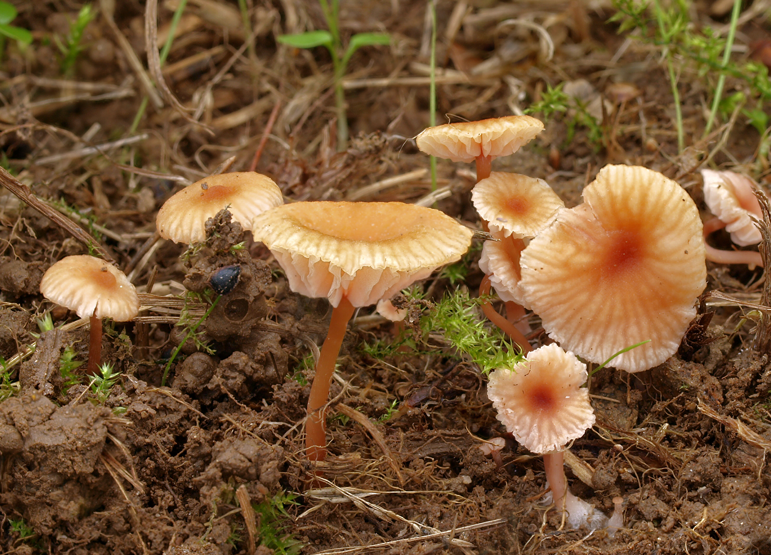 Twisted Deceiver (Laccaria tortilis)